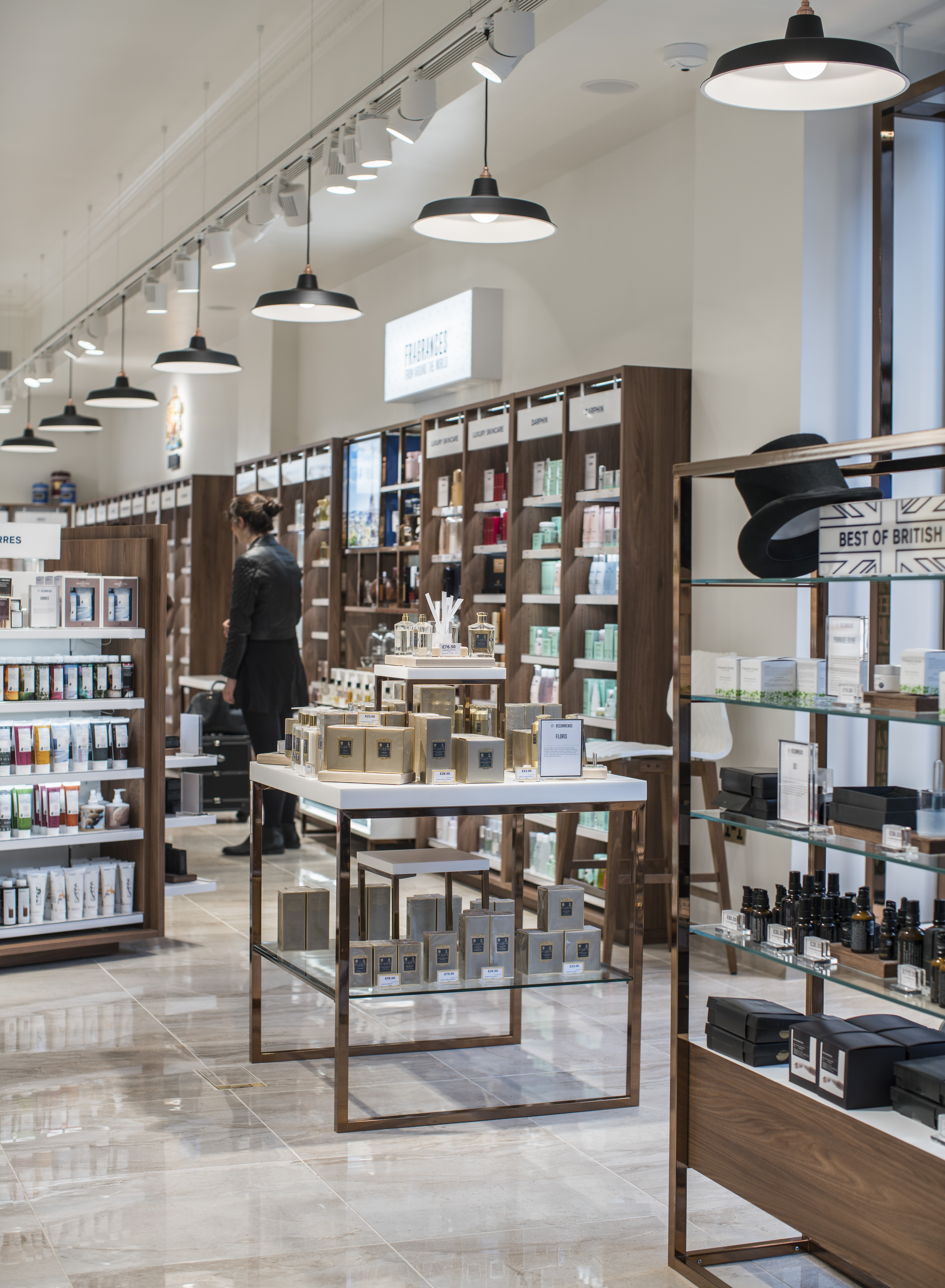 John Bell & Croyden Skincare